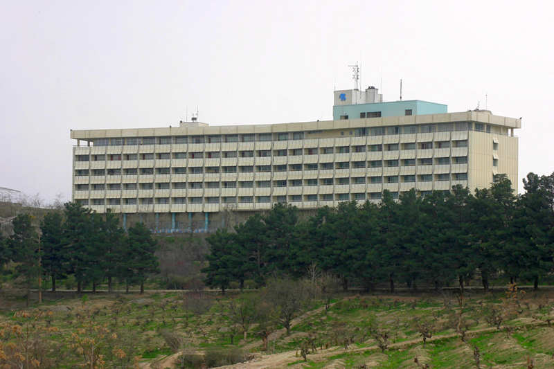 The Inter-Continental Hotel is currently the largest hotel in Kabul. Set on top of the Bagh-e-Bala Hill, it overlooks the northern half of the city.